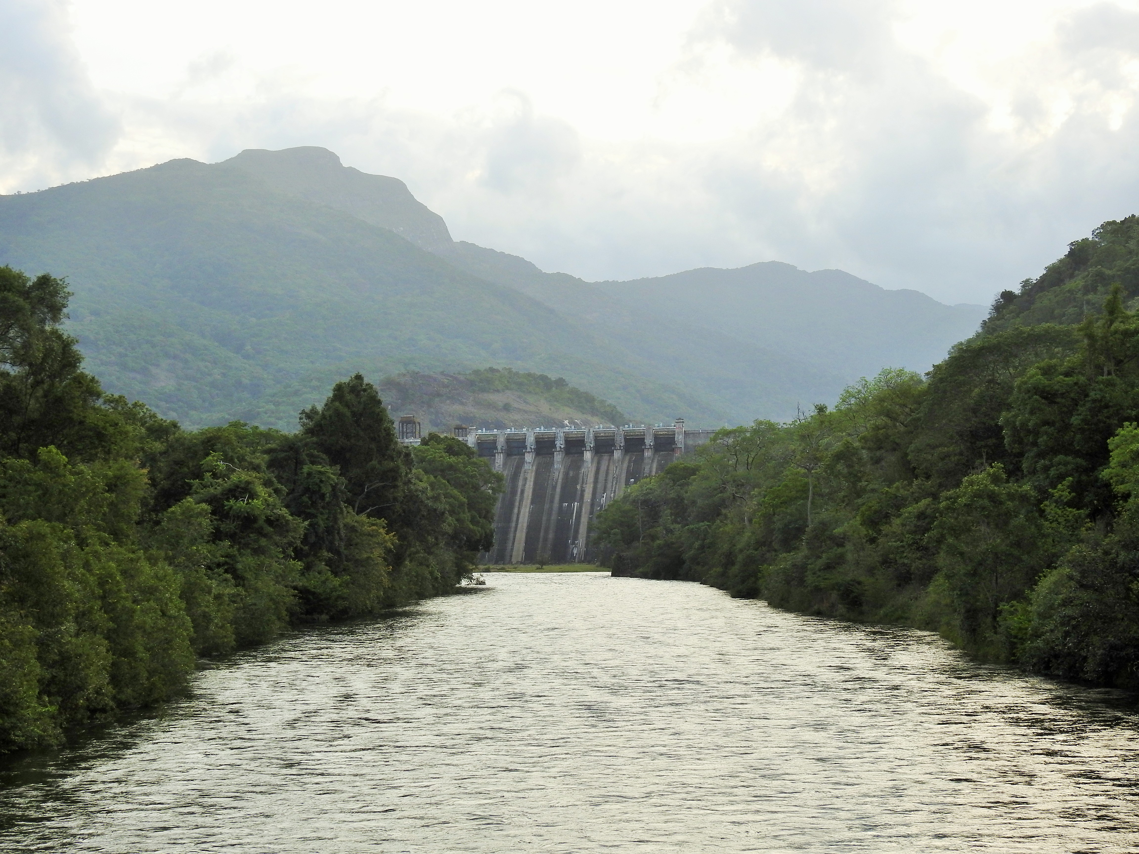 The mighty view of Servalar Dam at Mundanthurai